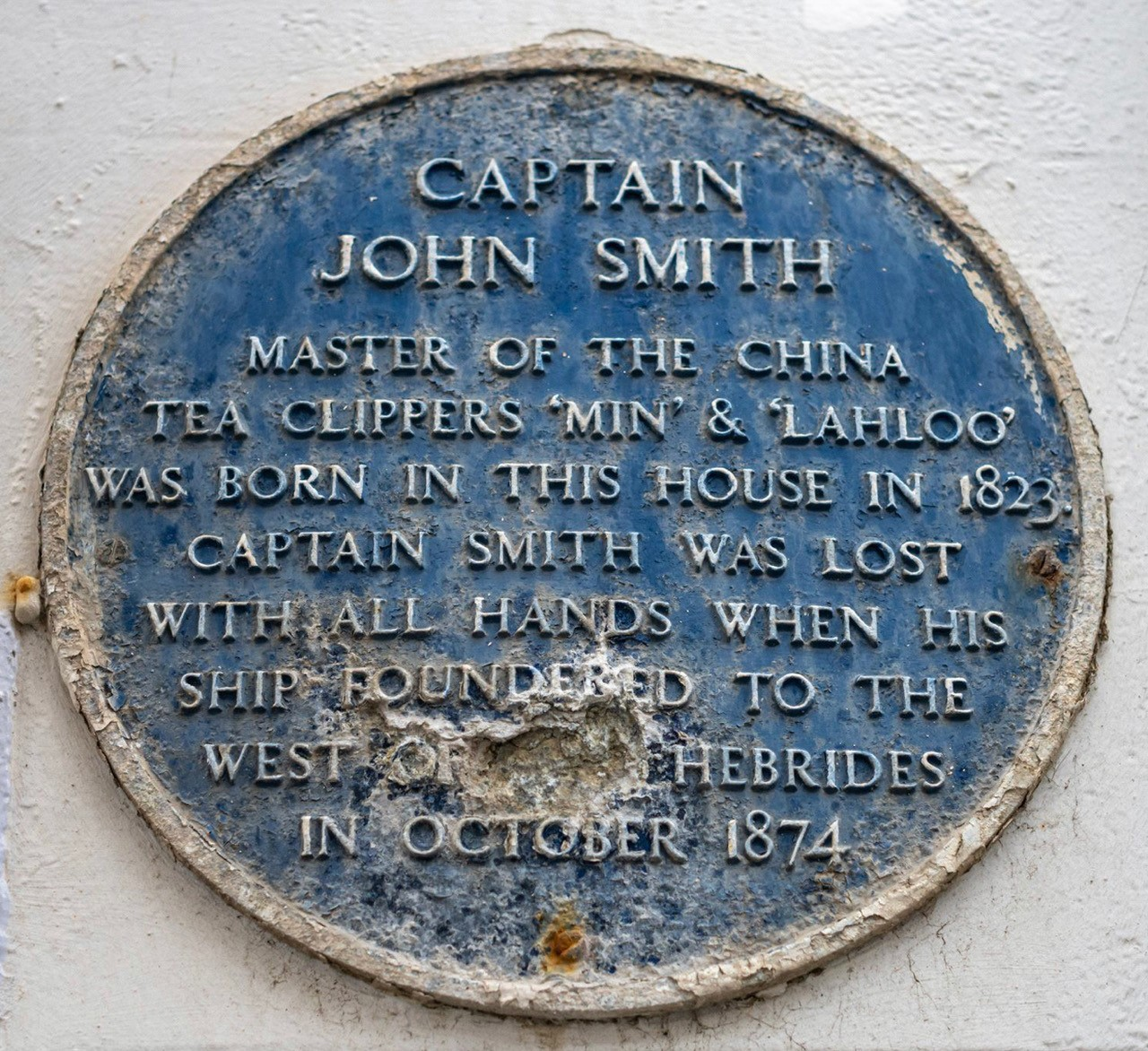 Capatin John Smith